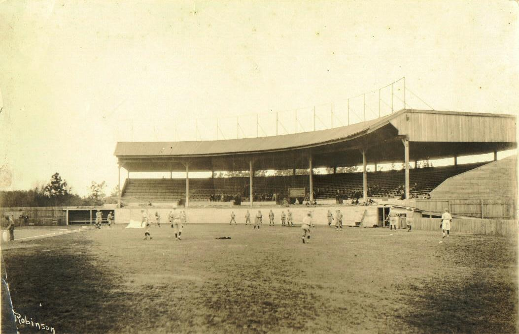 Tinker Field in its early days; spring training home of the Cincinnati Reds